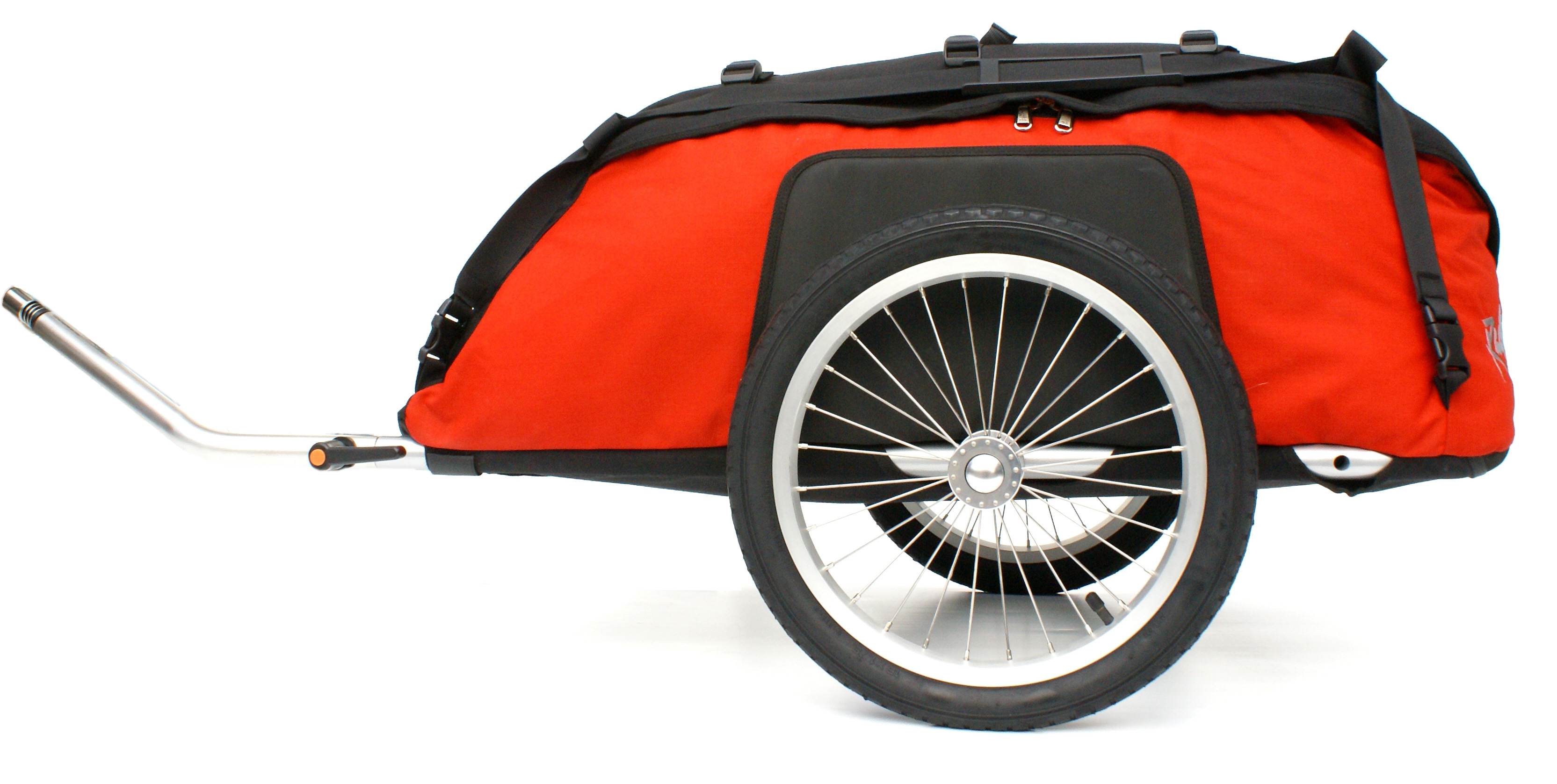 Bicycle trailer by Radical Design Cyclone III 2010. Bike trailer made for cycling holidays and bike expeditions around the world.